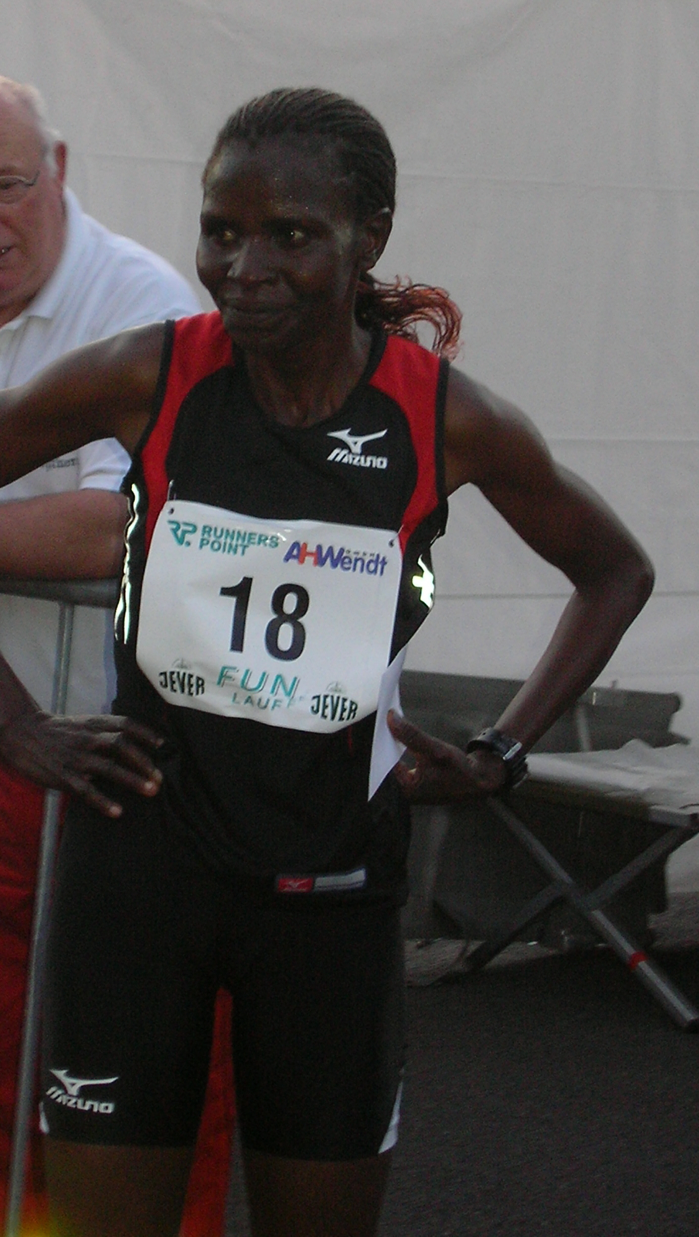 Joyce Chepchumba 2008 in Schortens